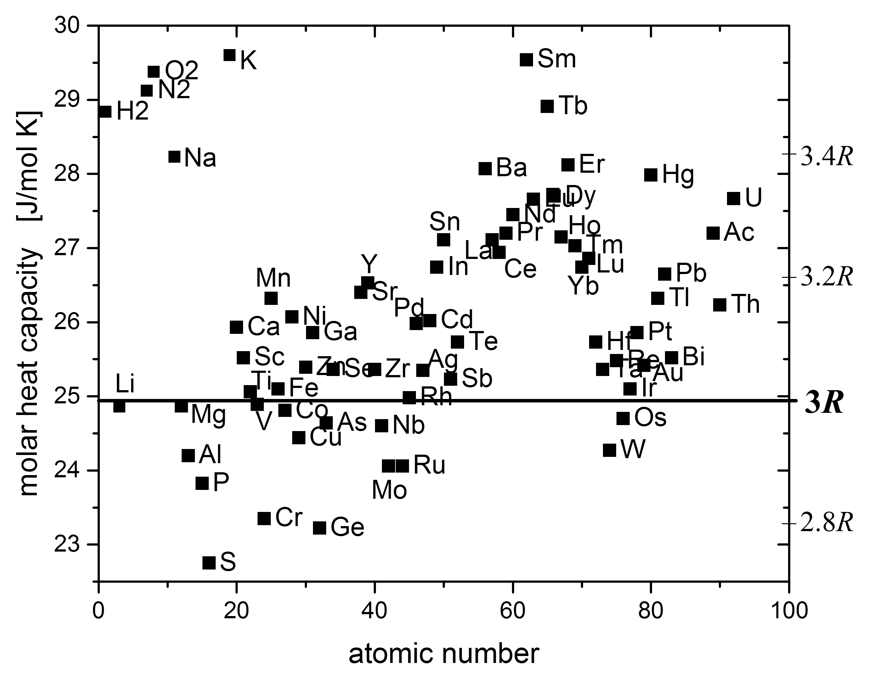 The molar heat capacity of elements at 25°C in the range 22.5 to 30 J/mol K plotted as a function of atomic number.